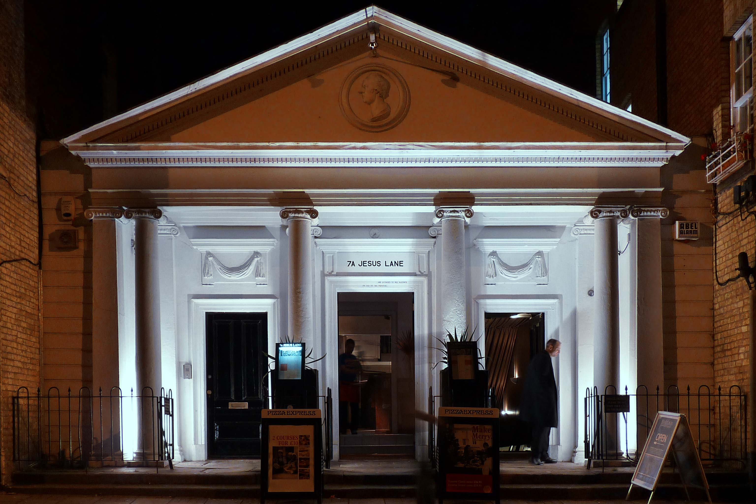 The façade of the Pitt Club, now also used by Pizza Express, at 7a Jesus Lane, Cambridge, England.